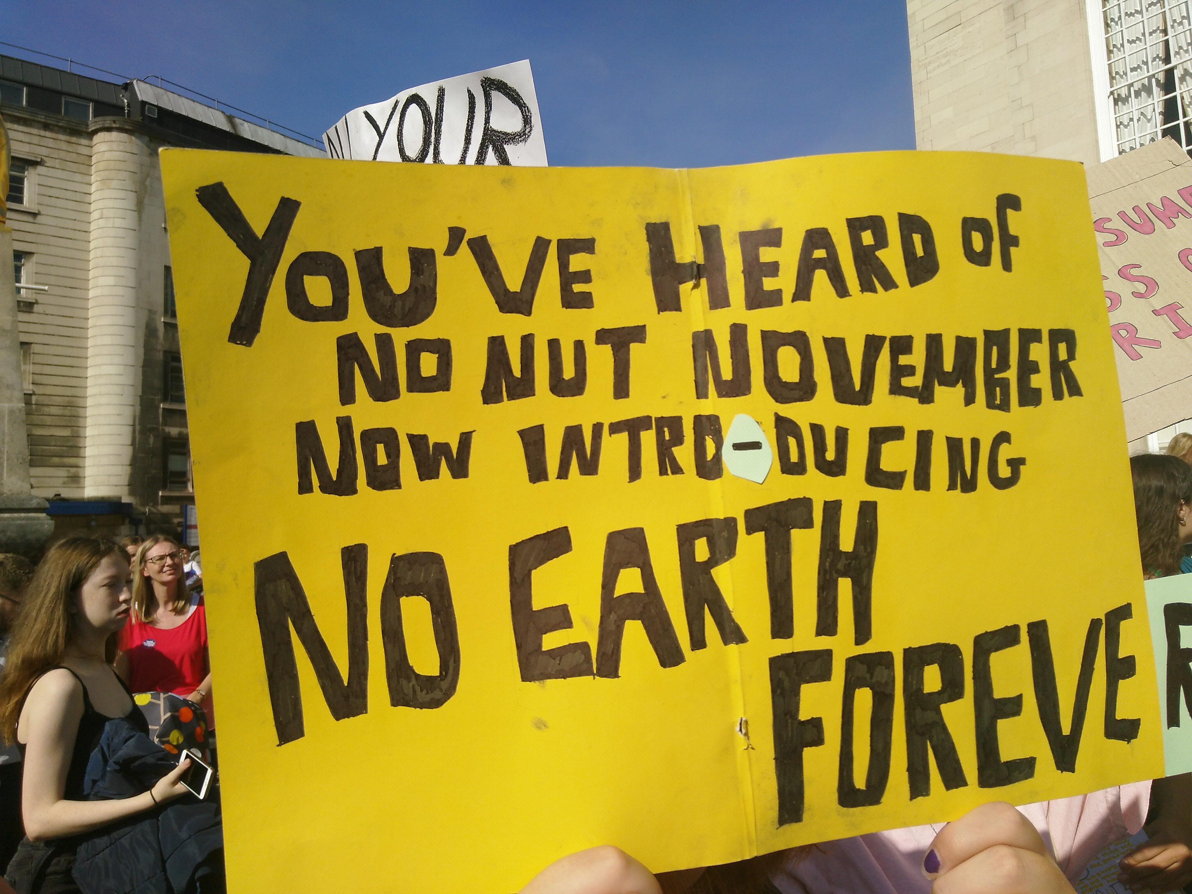 "You've heard of no nut November; now introducing no earth forever"